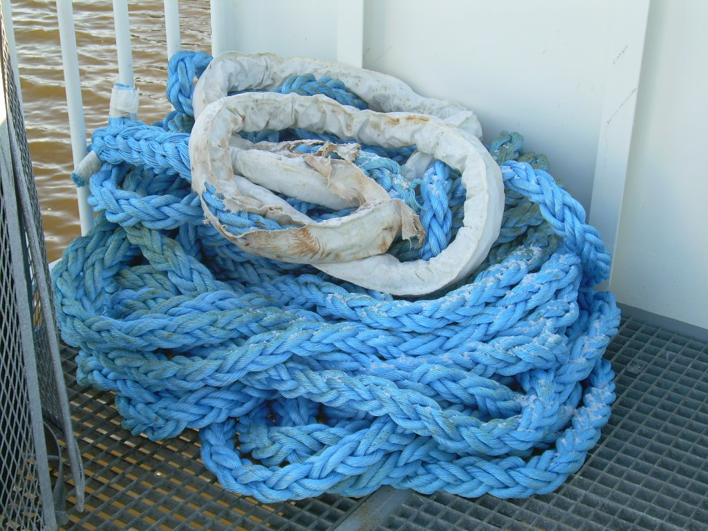 Rope on a ferry